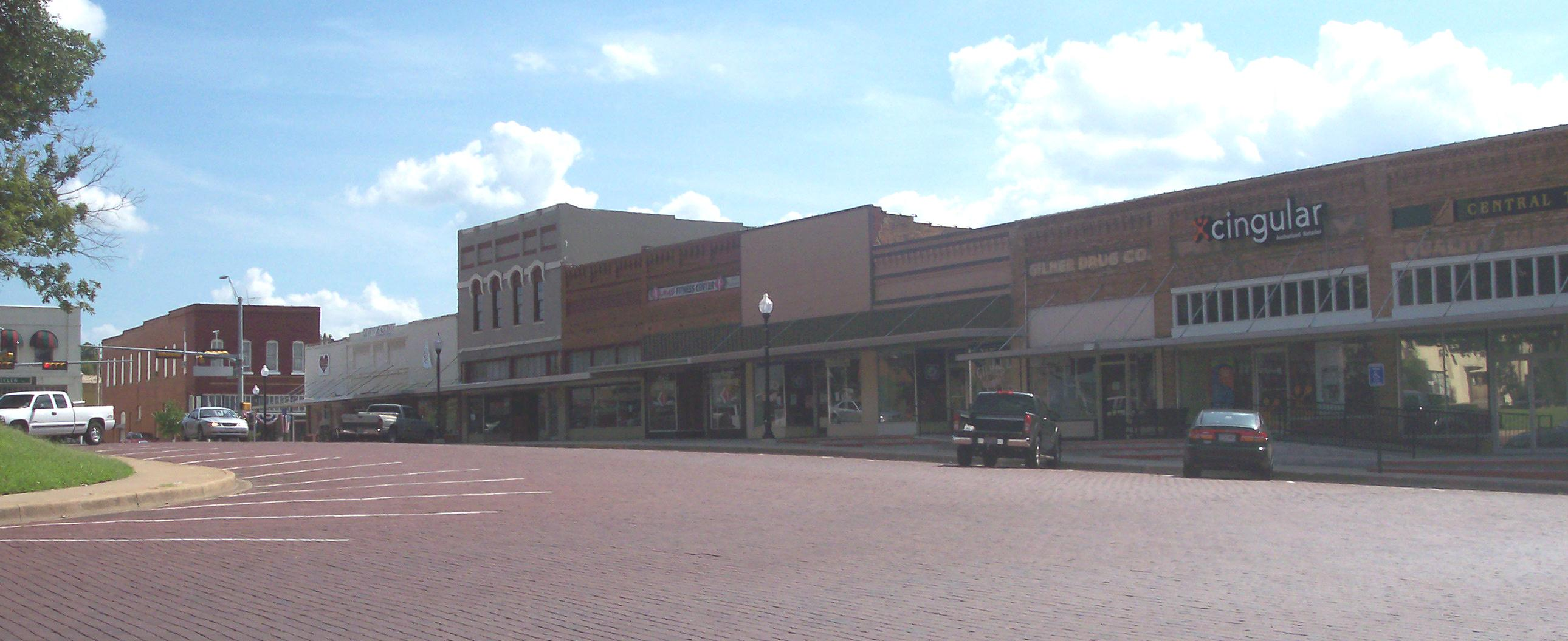 Davis St. along west side of courthouse square in Gilmer, Texas